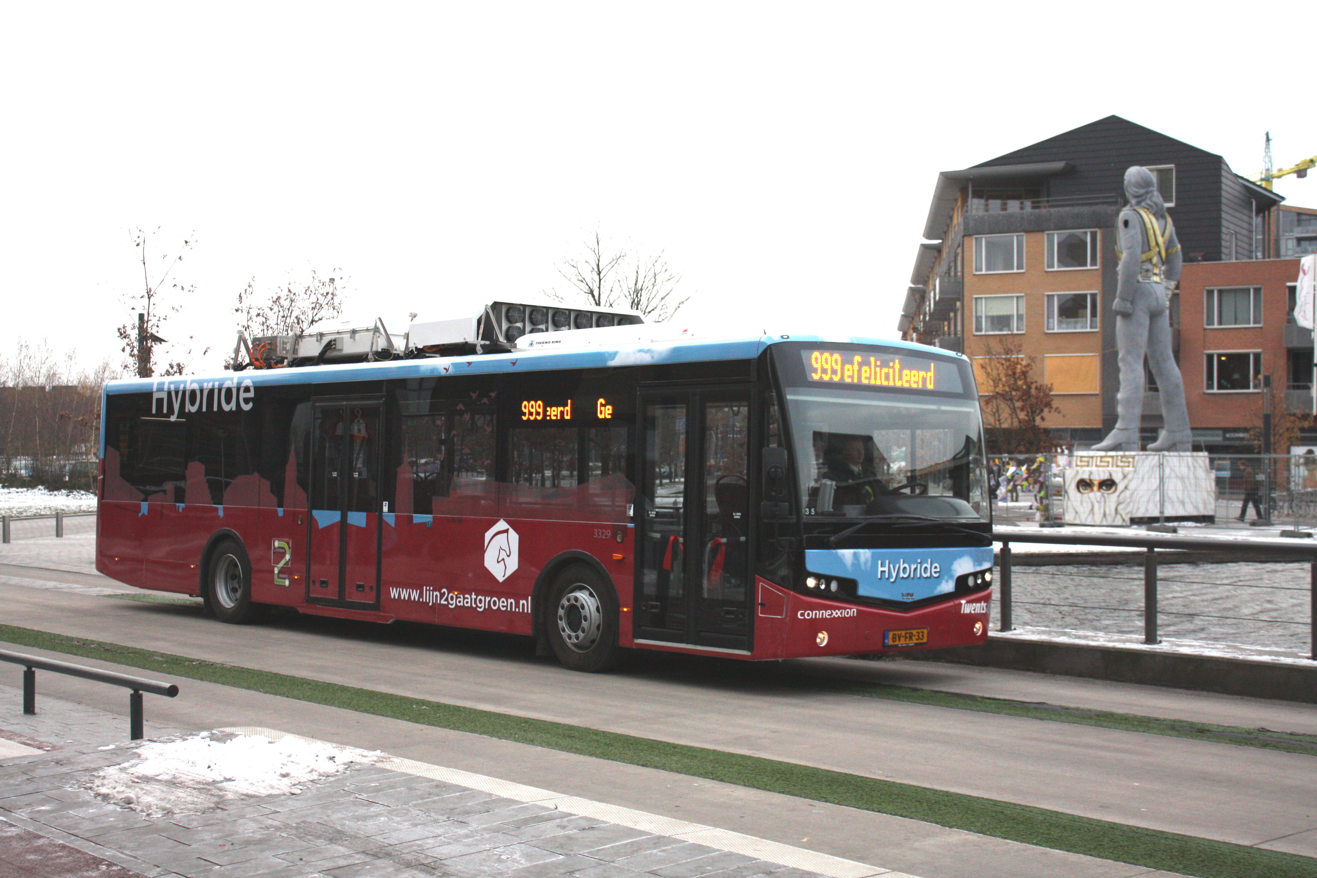 A diesel-electric hybrid bus for Twents (openbaar vervoer) in Enschede, on it's presentation day. Two of these buses will trial for the next two years on line two. Visible on top of the bus are the supercapacitors. During the actual trial, skirts will be added to hide this from sight. VDL Citea CLF 120 Hybride low-floor hybrid-powered bus (#3329) in Enschede, Netherlands. Built 2008, Connexxion from Hilversum operator.